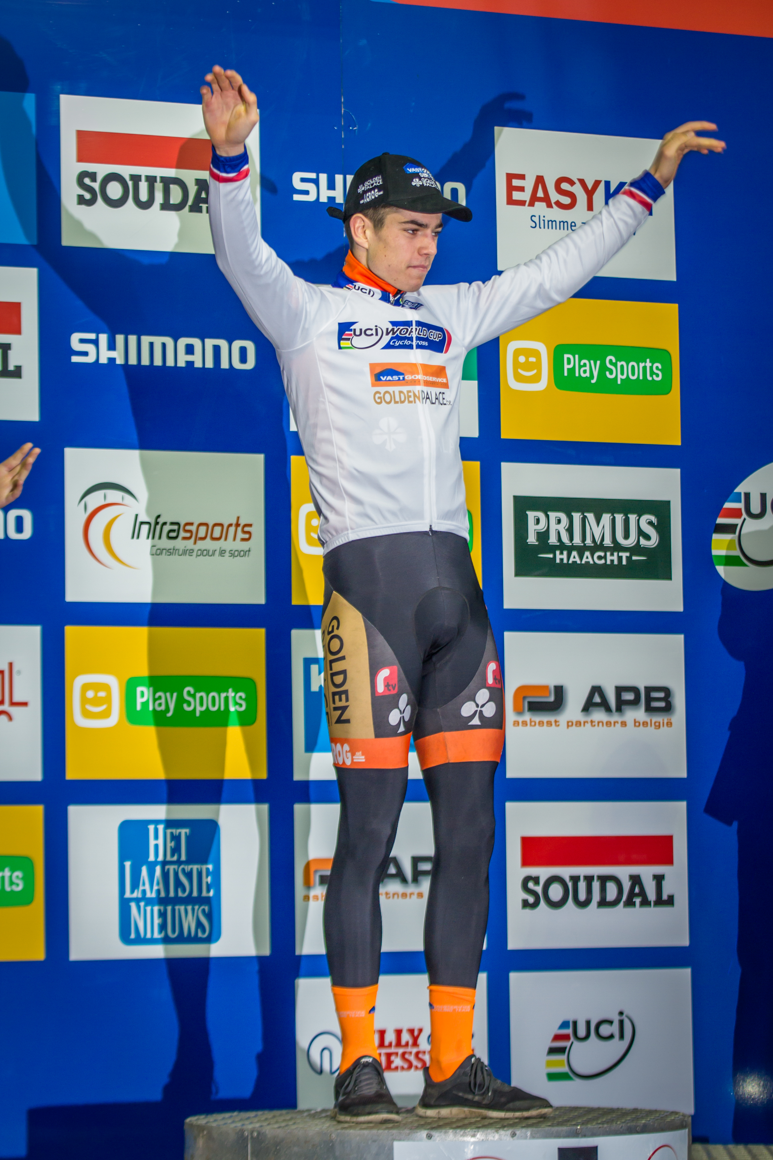 Wout Van Aert (BEL) of Vastgoedservice–Golden Palace, wearing the World Cup leader's jersey. UCI Cyclocross World Cup, Namur, 2015.